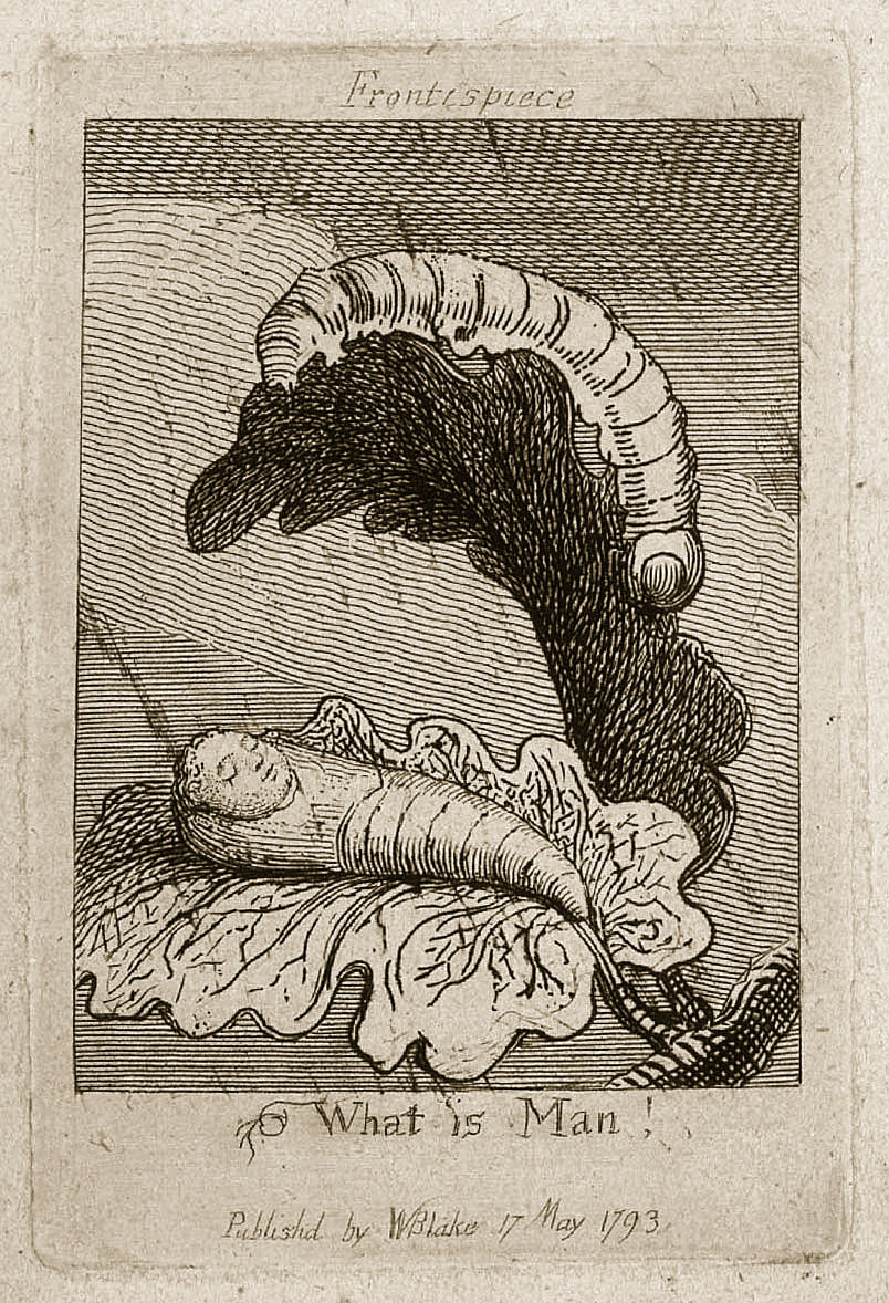 "For Children The Gates of Paradise" copy D object 1